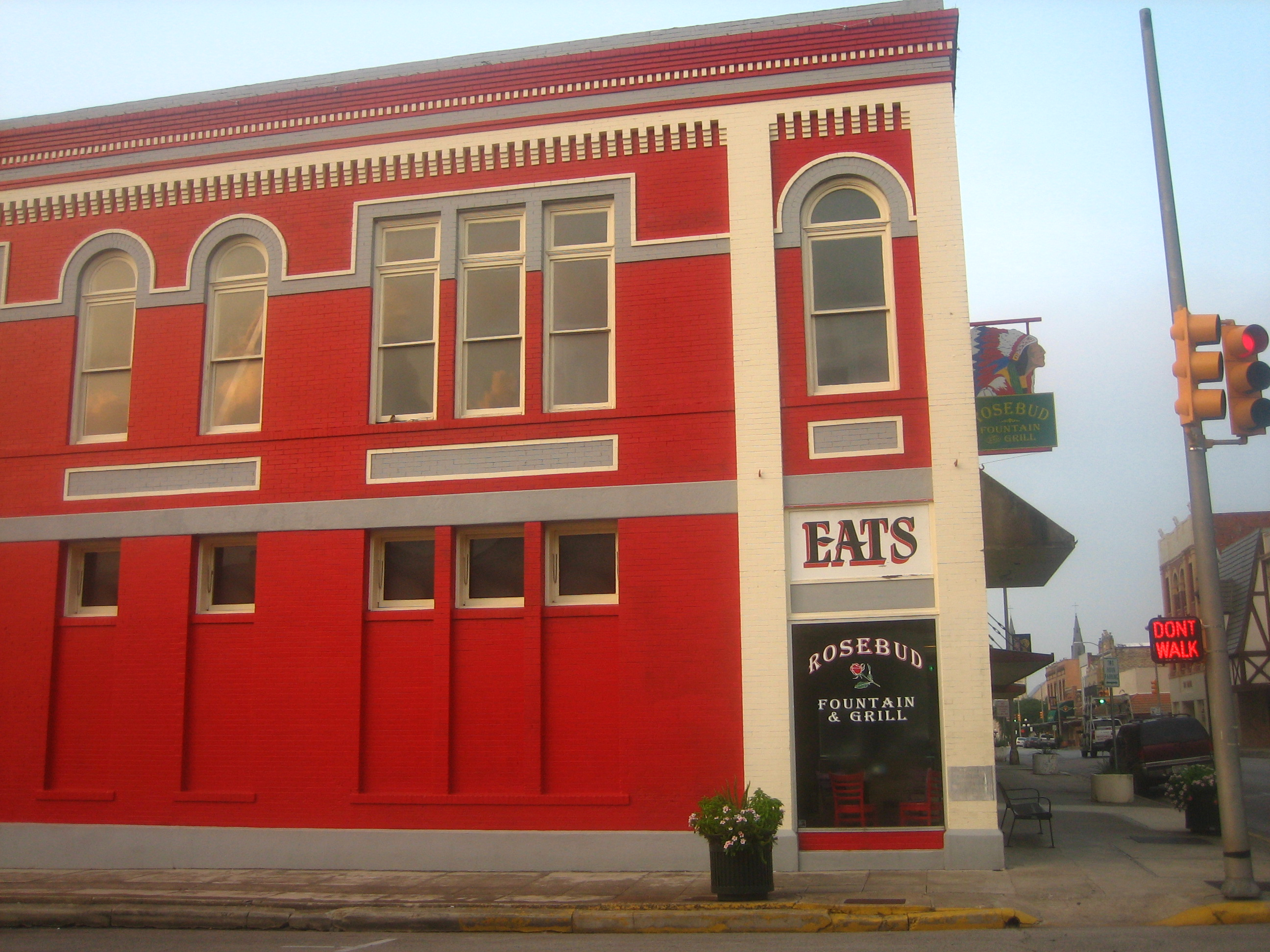 I took photo on July 31, 2008.Billy Hathorn (talk) 22:05, 17 August 2008 (UTC)